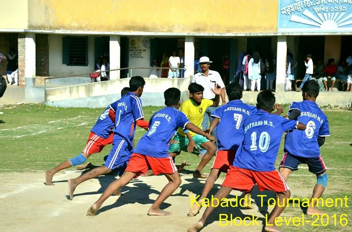 Sattari High School Block Level Kabaddi Tournament 2016